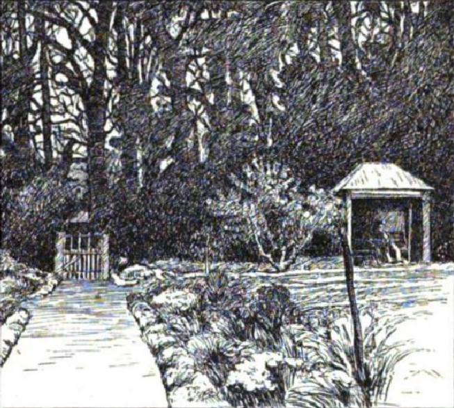 Sketch published in 1893 of poet Alfred Tennyson seated in his favorite arbor (pergola) at Farringford House in the village of Freshwater, where he lived from 1853 to 1892.